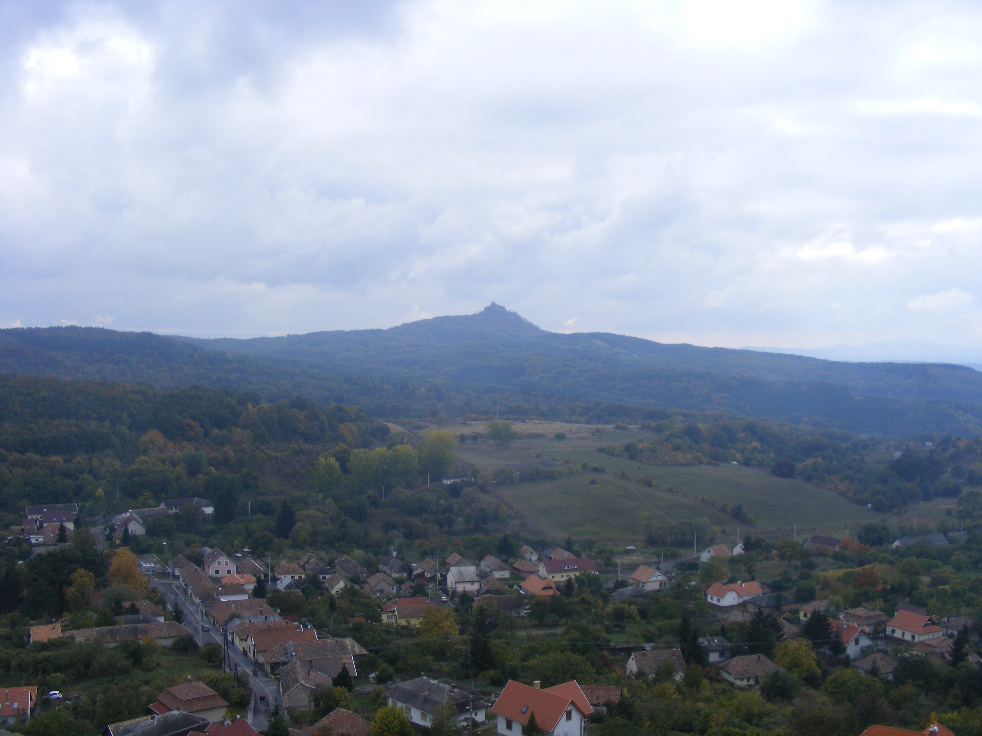 View from Somoskő Castle